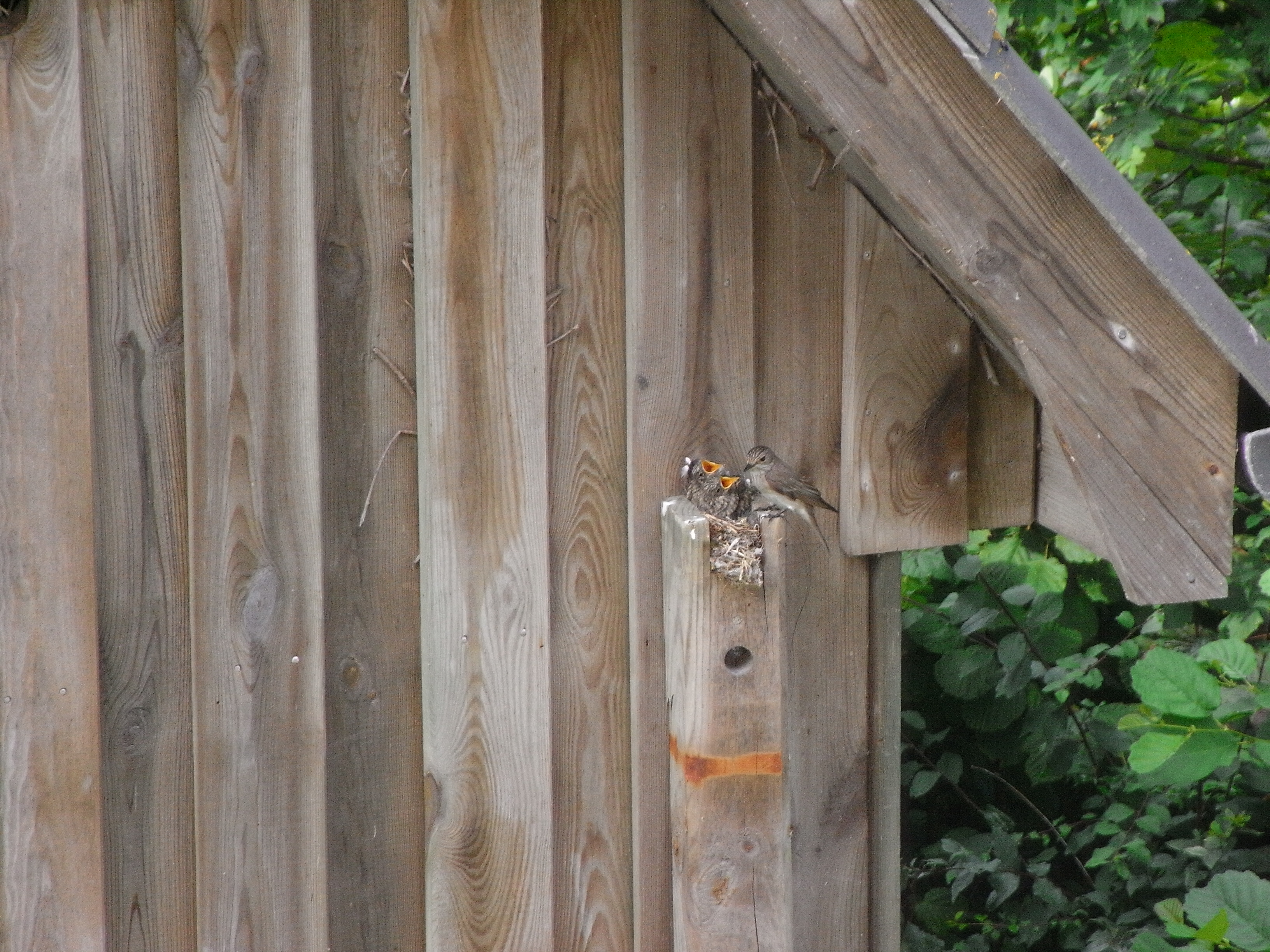 Spotted Flycatcher on nest under the roof of garden shed in Northern Germany